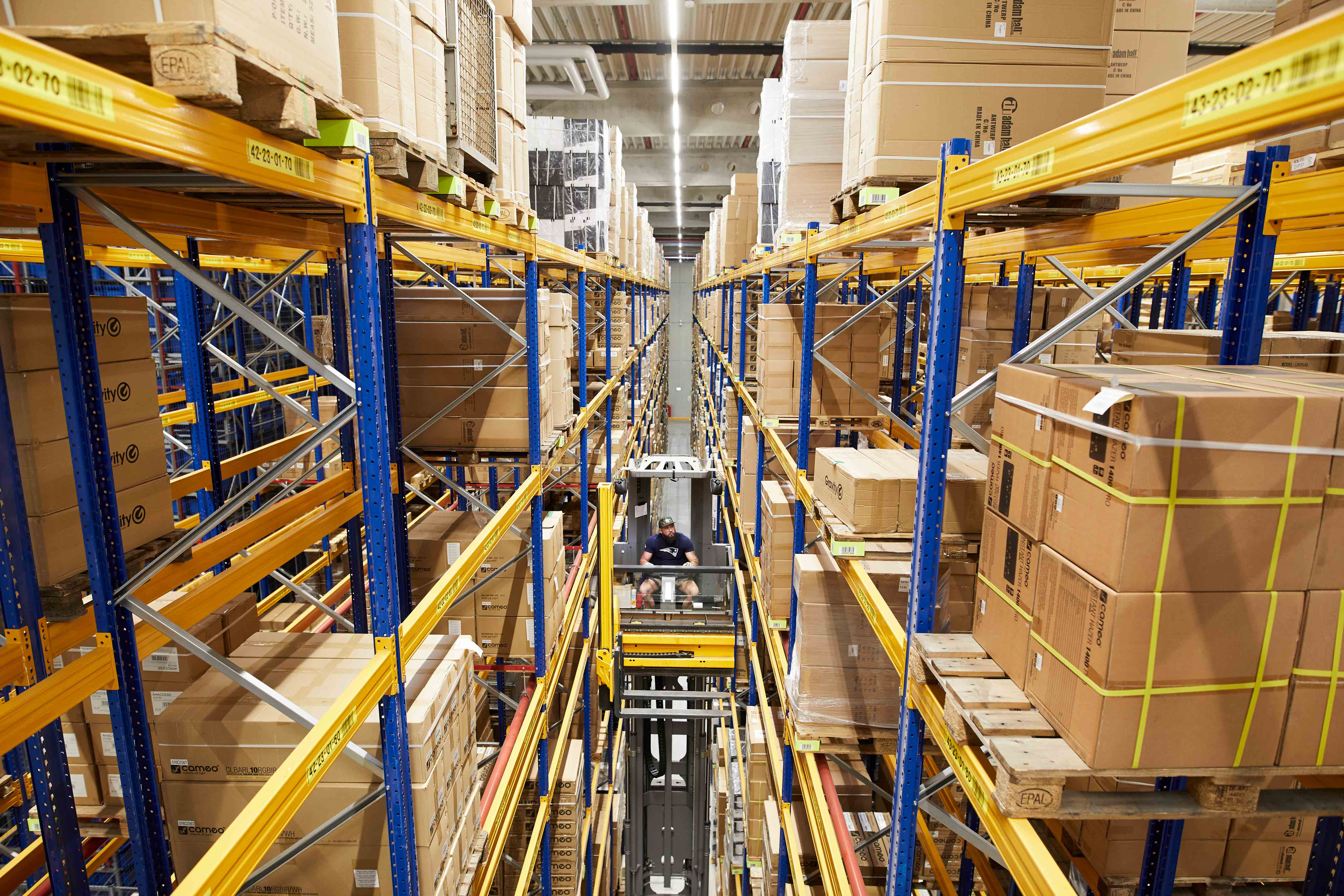 Adam Hall Warehouse 2018